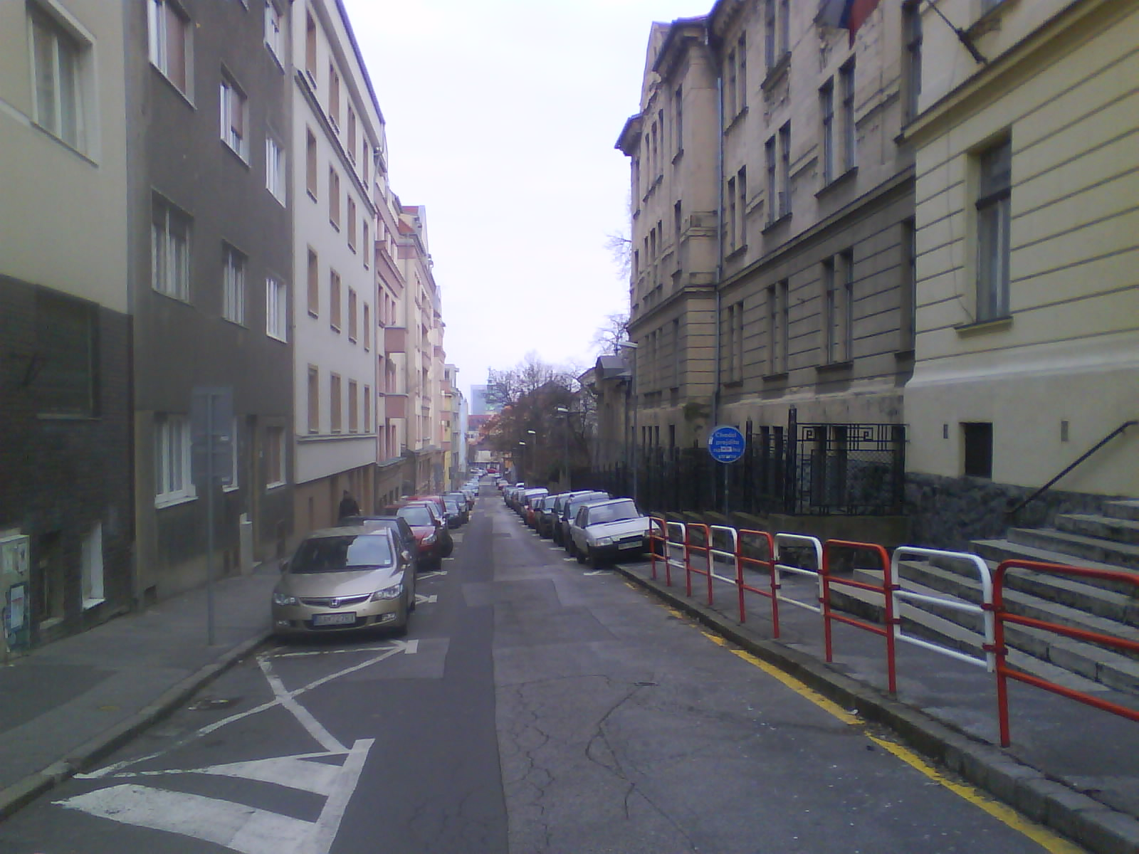 Zochova Street in Bratislava, Slovakia. Looking down towards Staromestska Street.